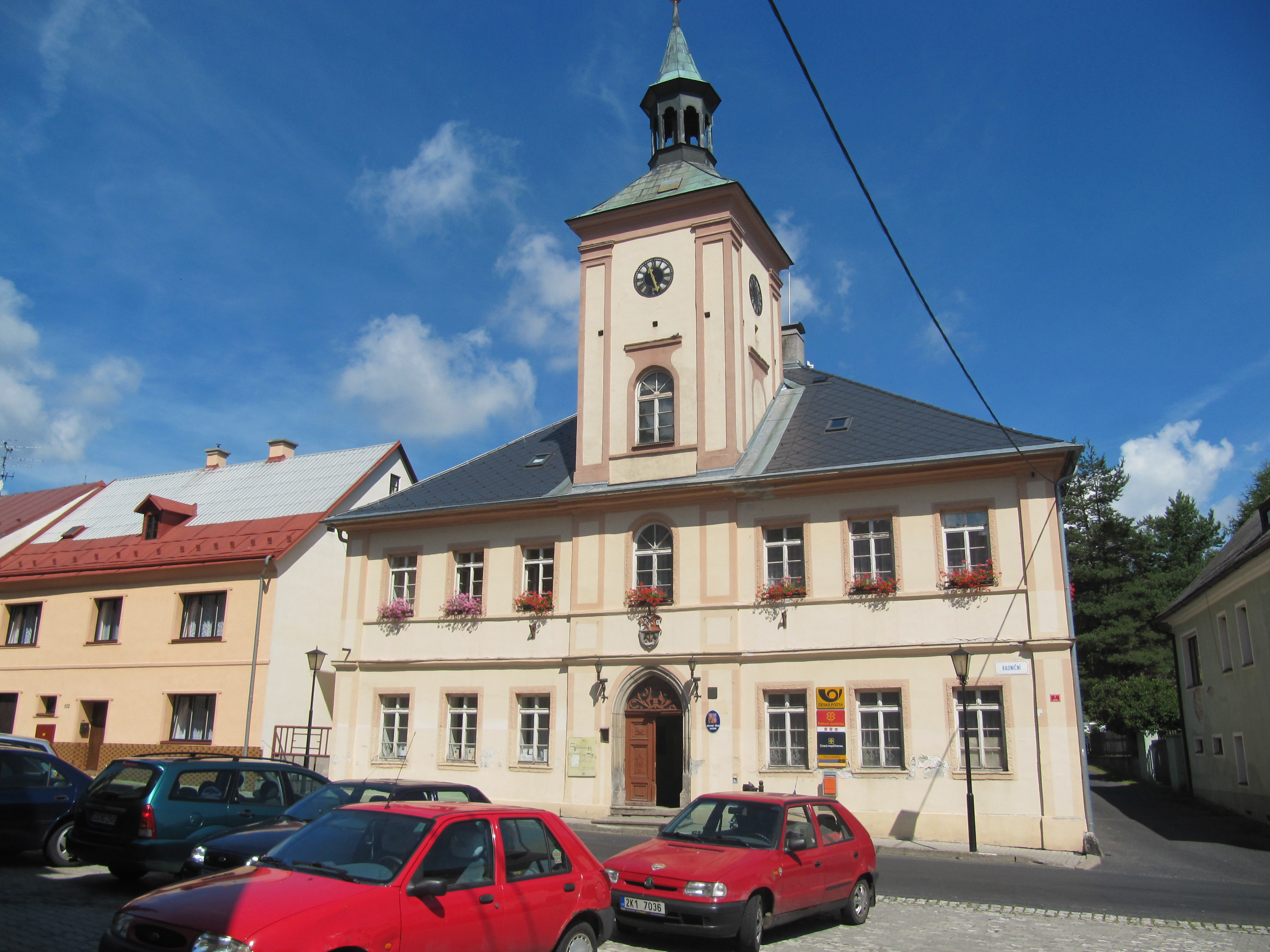 Krásno, Sokolov District, Czech Republic. Town hall.